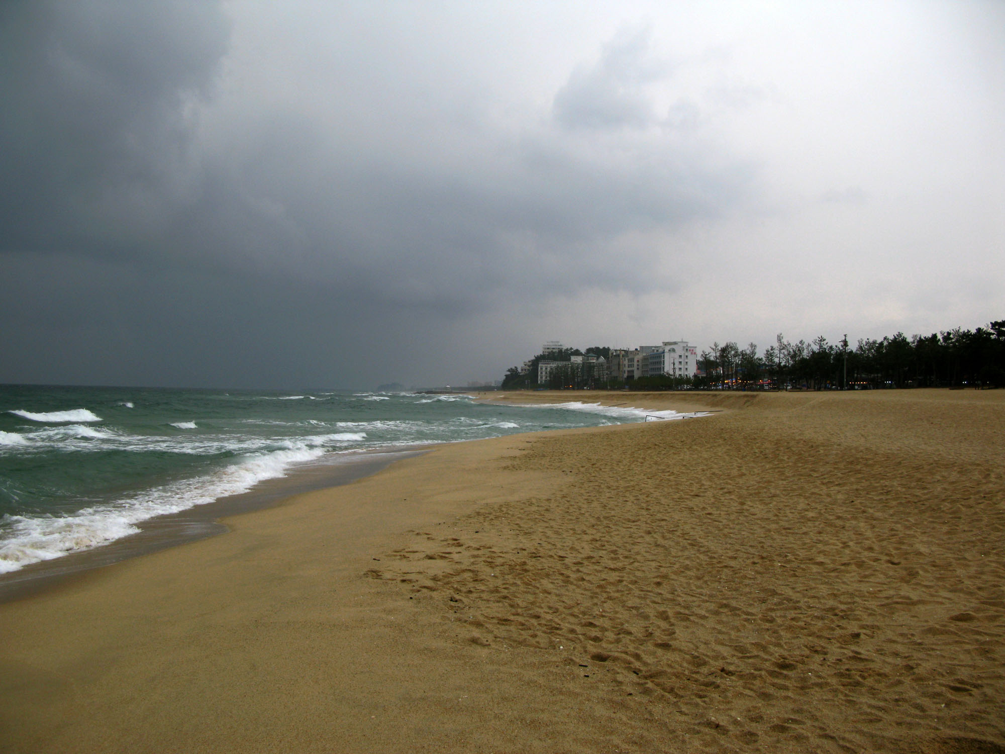 Gyeongpo Beach